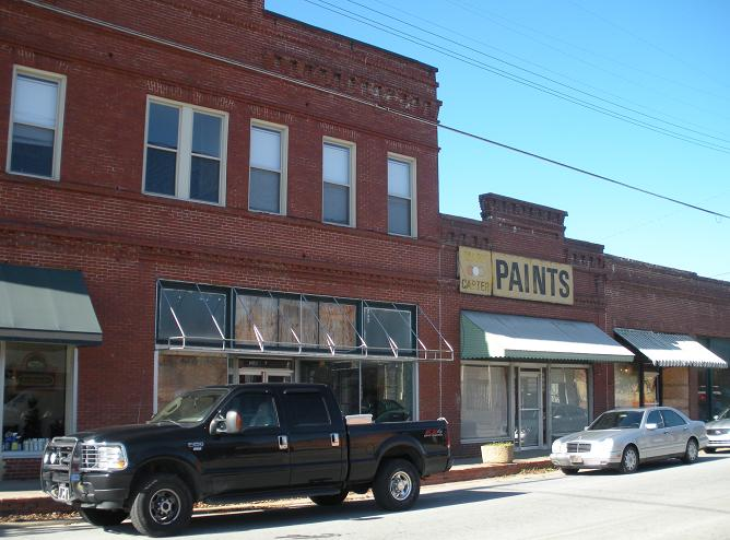 The main street area of Hurtsboro, Alabama.